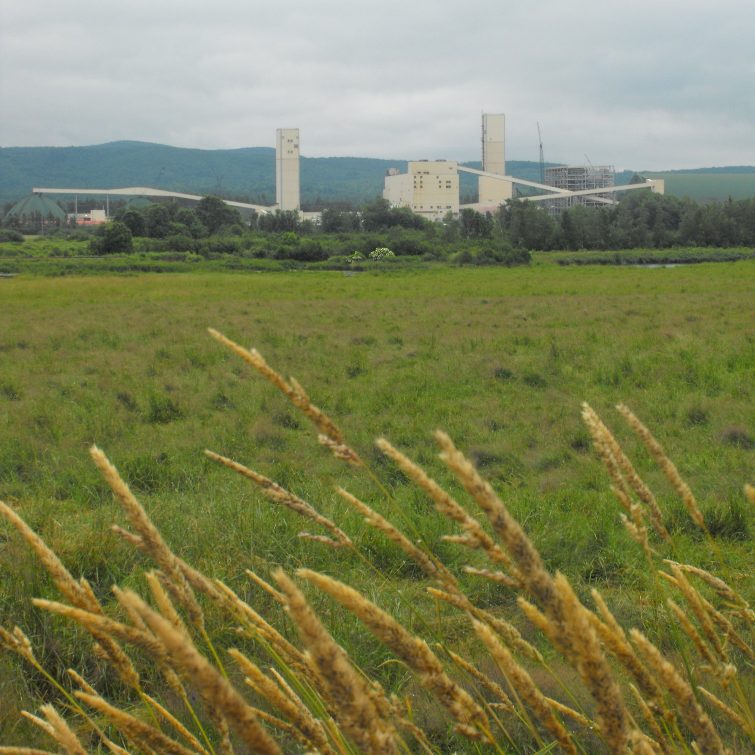 Potash mine in Penobsquis near Sussex, New Brunswick